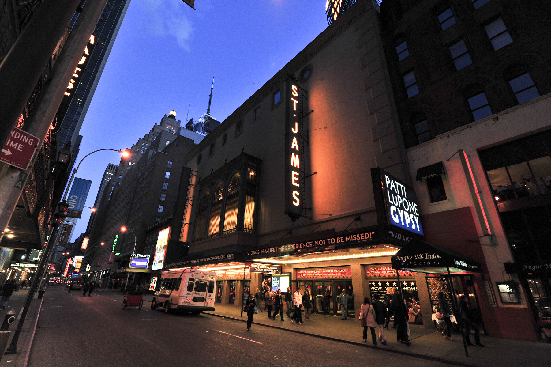 St. James Theatre